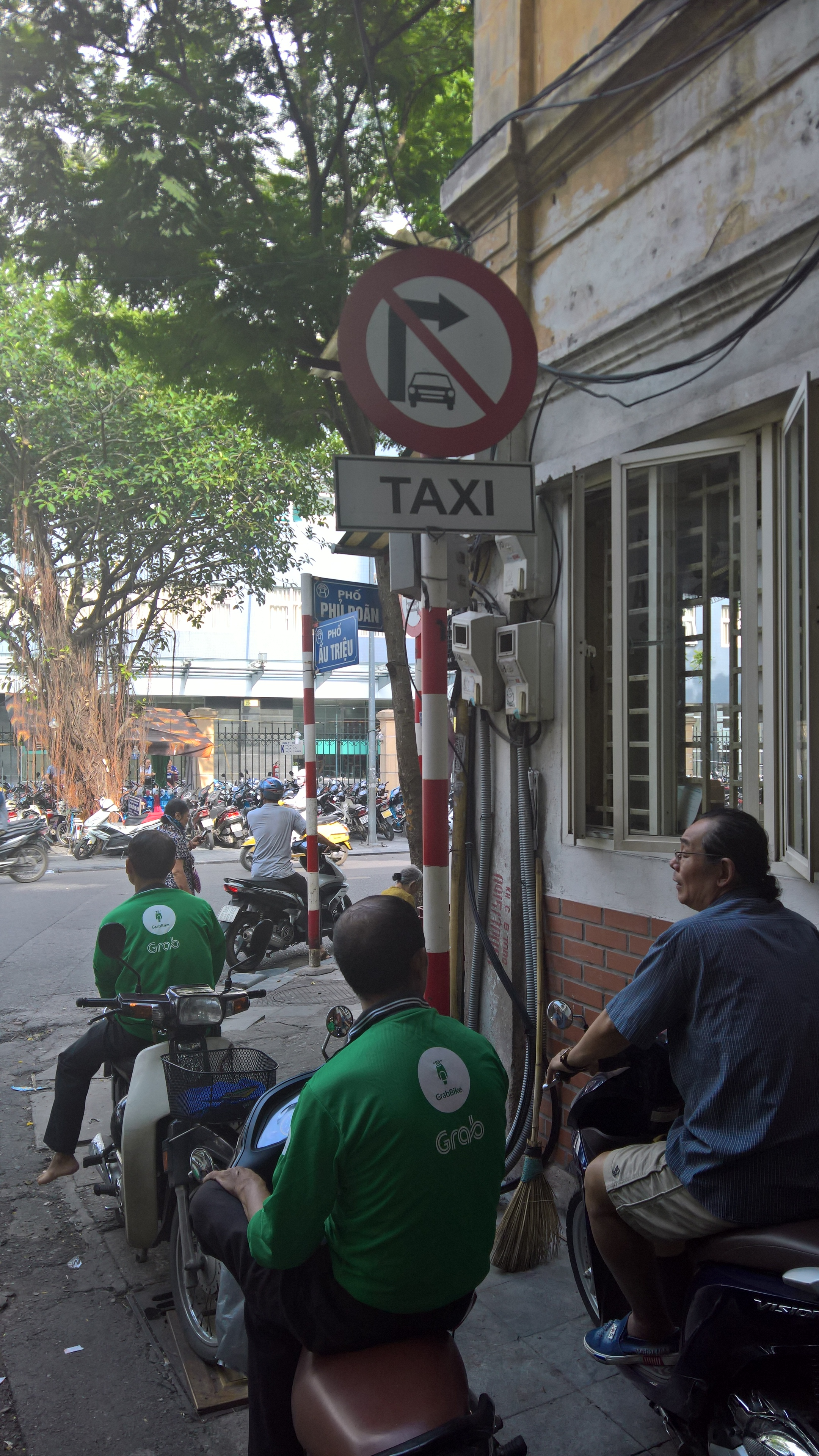 A sign restricting the movement for non-taxi motor vehicles.